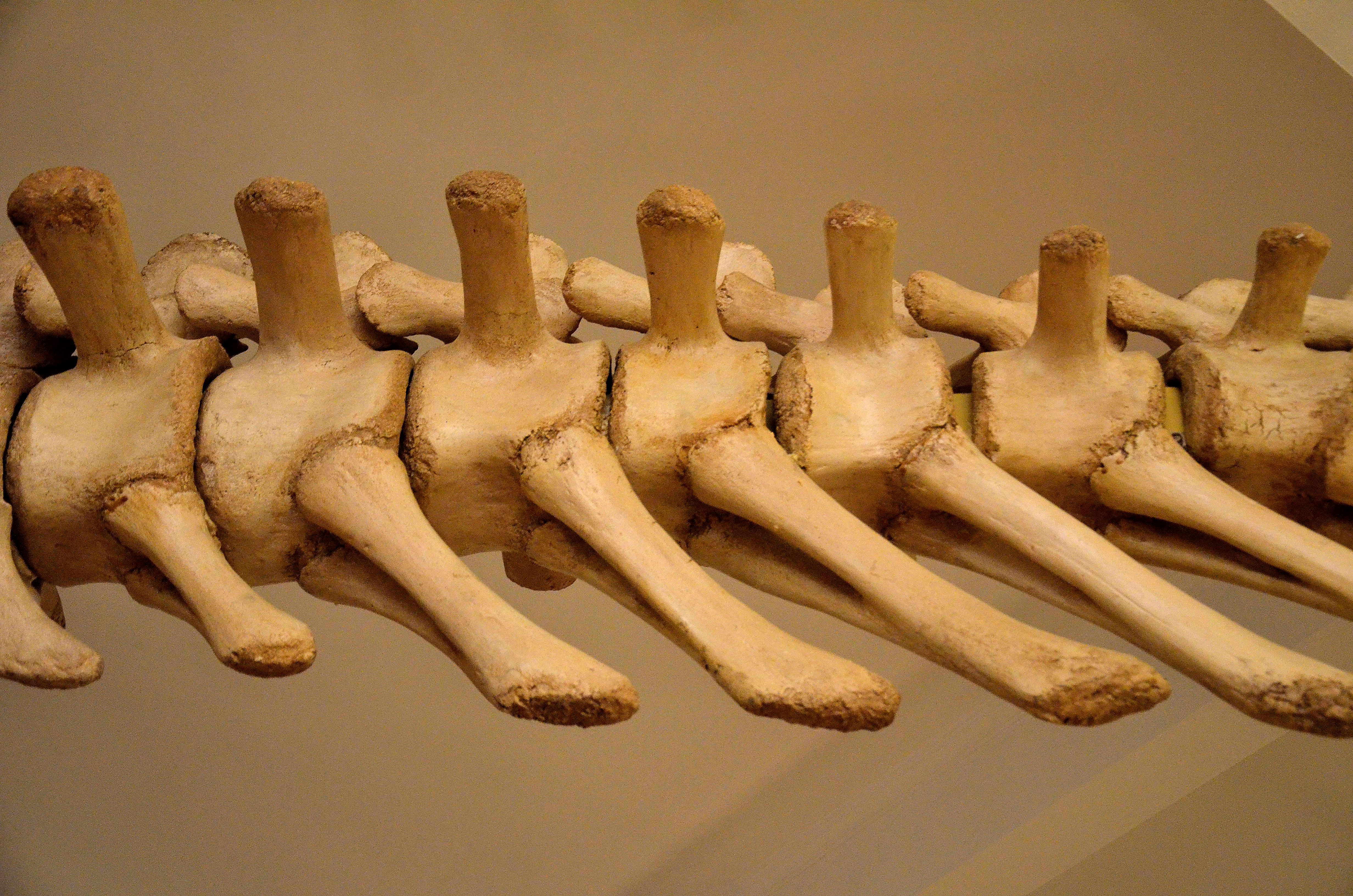 Opisthocoelicaudia skeleton. Museum of Evolution in Warsaw